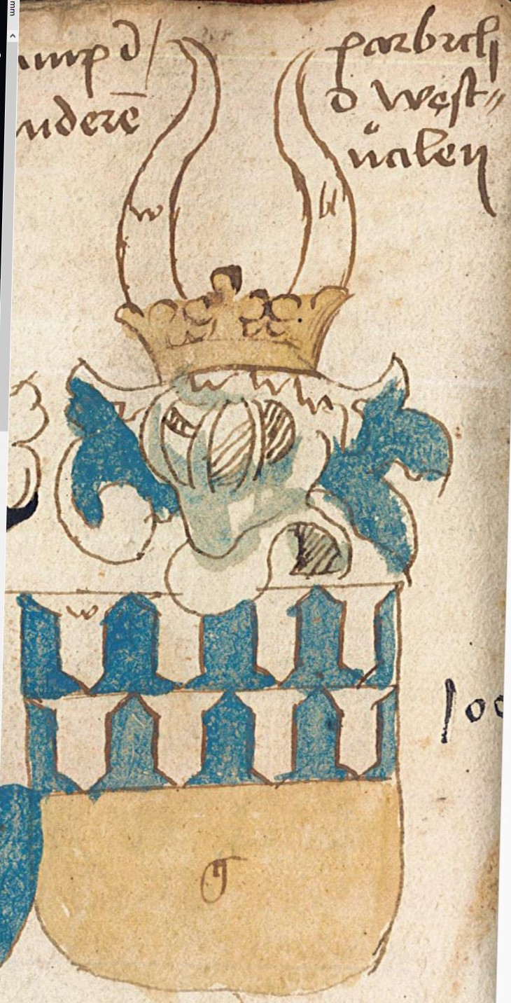 From the Armorial Bayhardt or 'Wappencodex des Grafen von Virmundt'. ca. 1600. Fol. 55v Library of the Herold, Berlin. Signature: I B 40